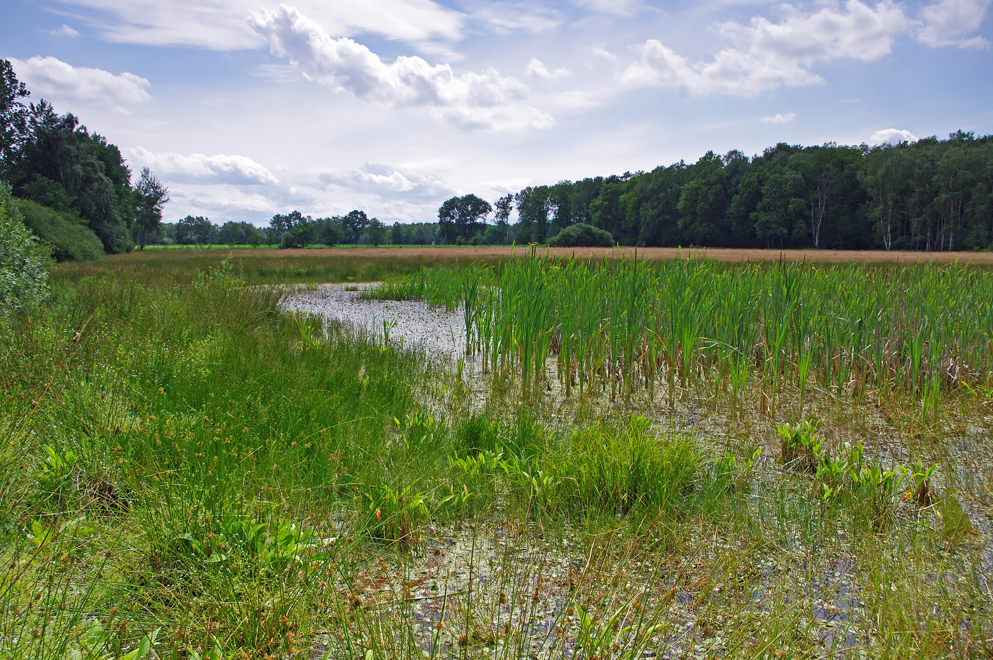 Little nature reserve "Almstorfer Moor" in the district Uelzen, between the villages Strothe and Almstorf; here the western area with a weedy pool in wet grassland.